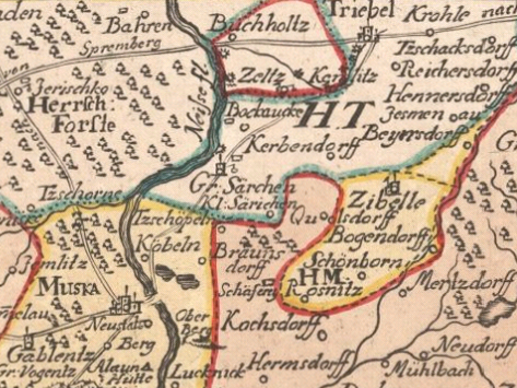 Crop from the map Image:Priebussischer Creis nebst Herrschaft Muska.png.